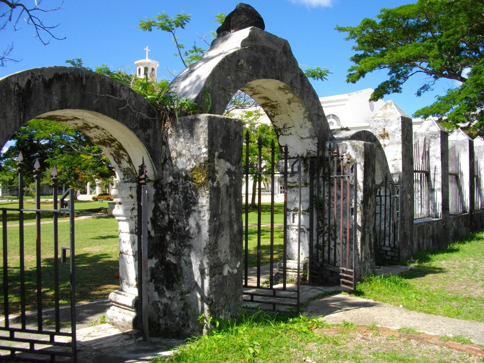 Plaza de Espana Almacen Entrance